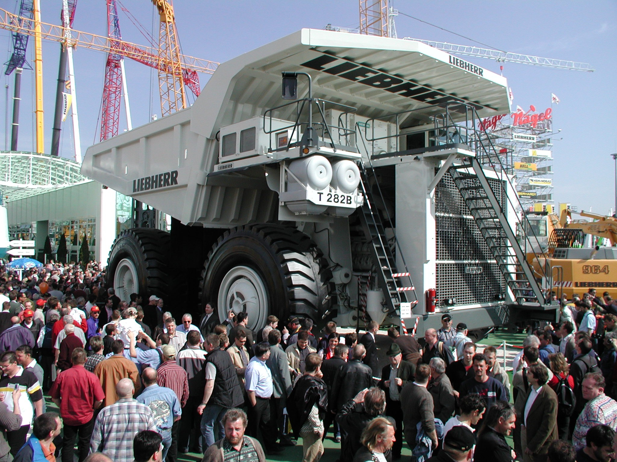 Liebherr mining truck type T282B at the Bauma exibition, Munich, Germany, april 2004. The worlds largest truck. Front view. The truck on the image was manufactured in Chicago in the USA and transported in separate parts by ship to Europe arriving in Bremen harbour in january. The transportation of all parts down to Munich, assembly of the complete machine and start-up took almost 3 months, just in time for the opening day at Bauma in april. The wheels were manufactured in Spain and transported by special trucks to Munich. Technical data: Max weight, including load: 600 ton. Max load: 363 ton. Empty weight: 237 ton. Max. speed: 64 km/h. Powertrain, transmission: Diesel electric transmission. Main engine: 3650 hp, @1800 rpm.